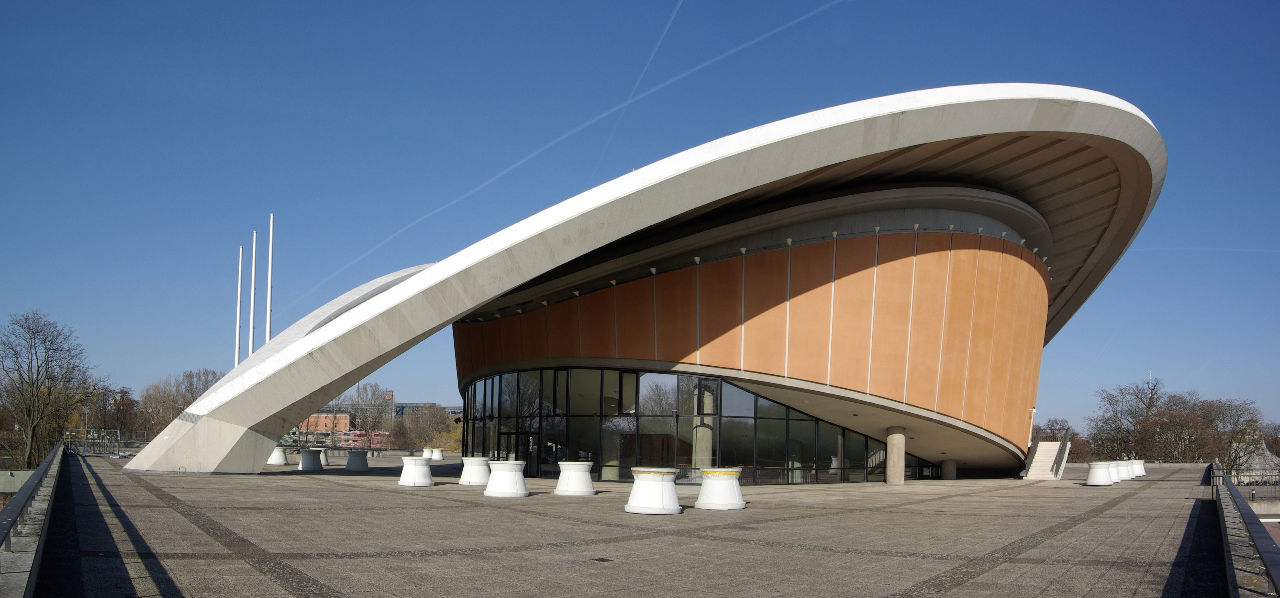 Berlin, "House of the Cultures of the World", formerly "Congress Hall".